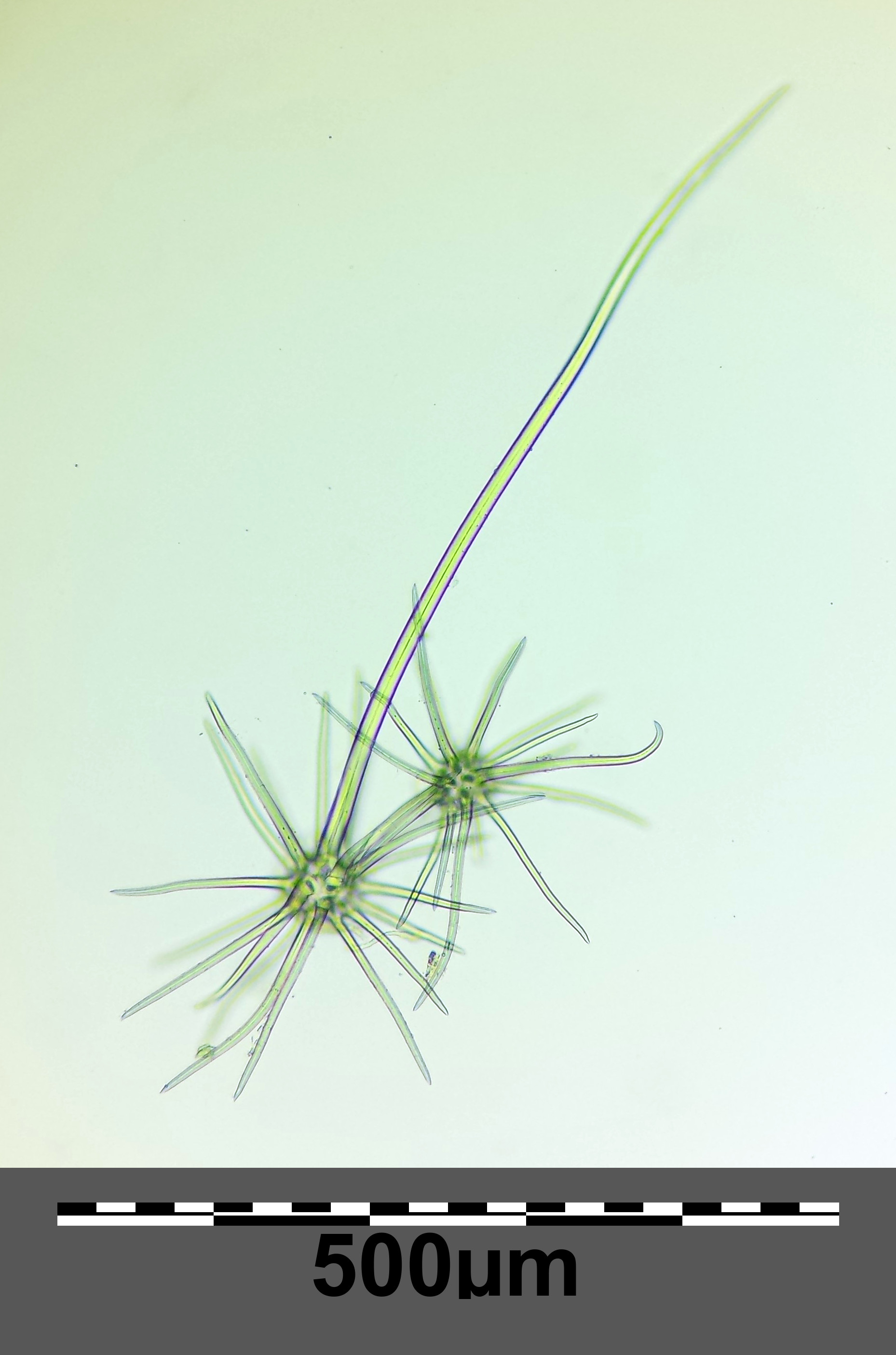 Stellate hairs Taxonym: Potentilla incana ss Fischer et al. EfÖLS 2008 ISBN 978-3-85474-187-9 Location: Stetter Berg, district Korneuburg, Lower Austria - ca. 275 m a.s.l. Habitat: semi-dry grassland